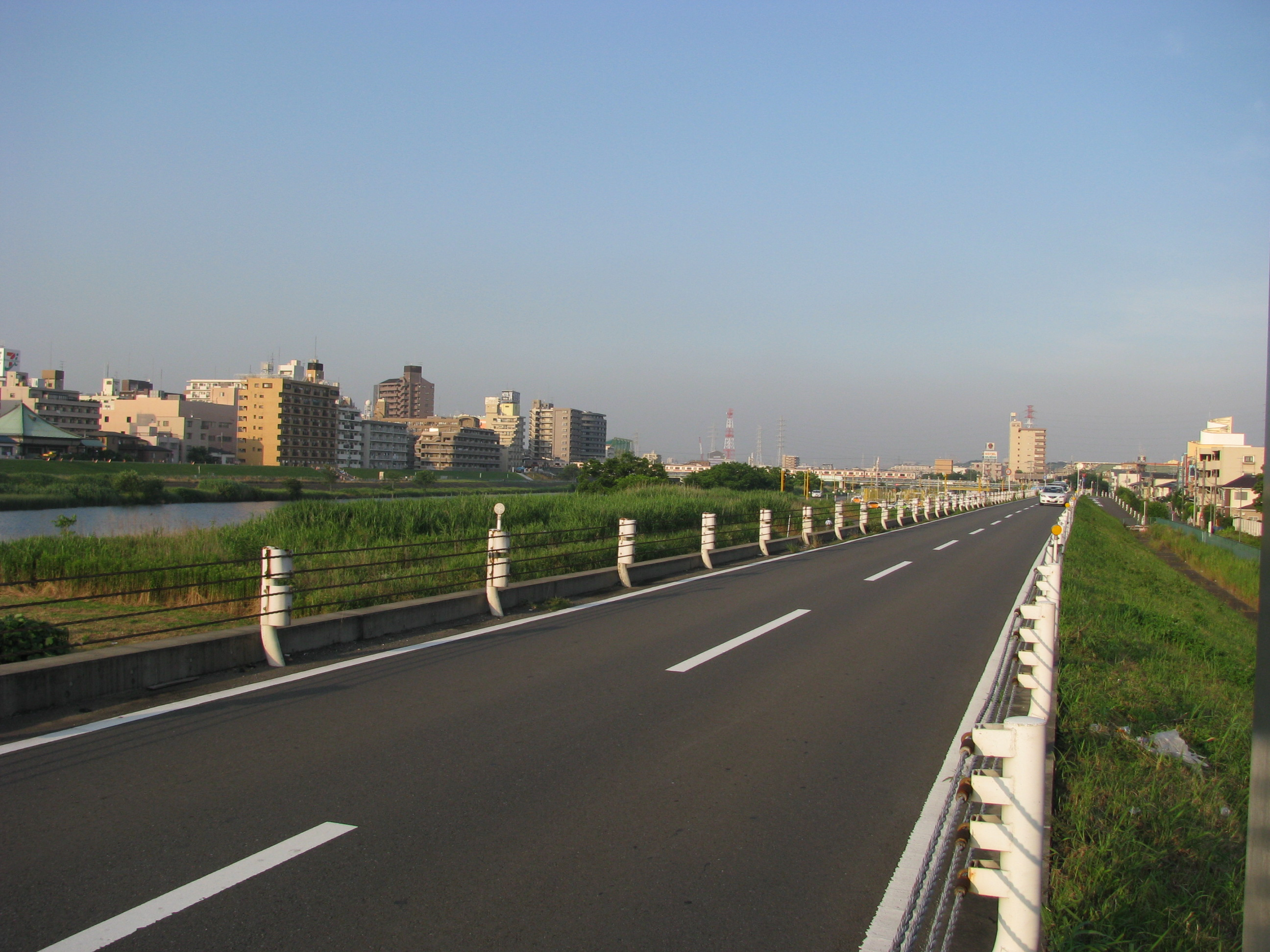 The Kanagawa Prefectural Route 140. This located is in Kōhoku, Yokohama, Kanagawa, Japan.